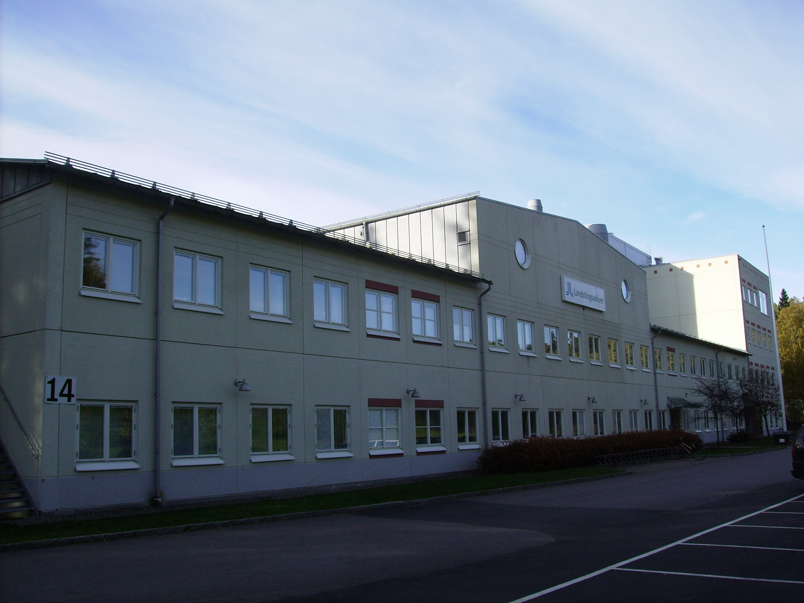 Picture of Landstingsarkivet in Flemingsberg, Stockholms län